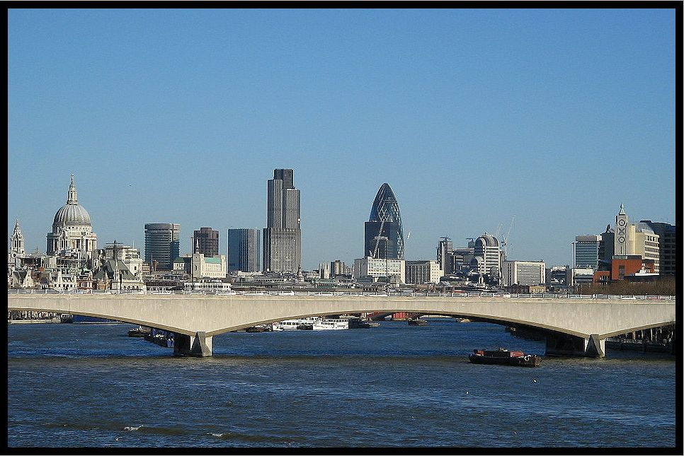 Drapers Gardens, an office tower in the City of London, viewed from Waterloo Bridge